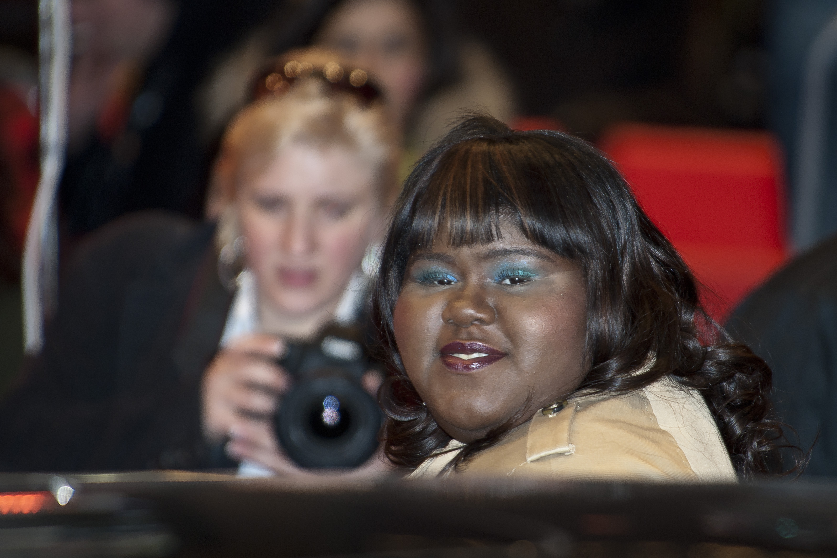 Actress Gabourey Sidibe at the premiere of her film "Yelling To The Sky".